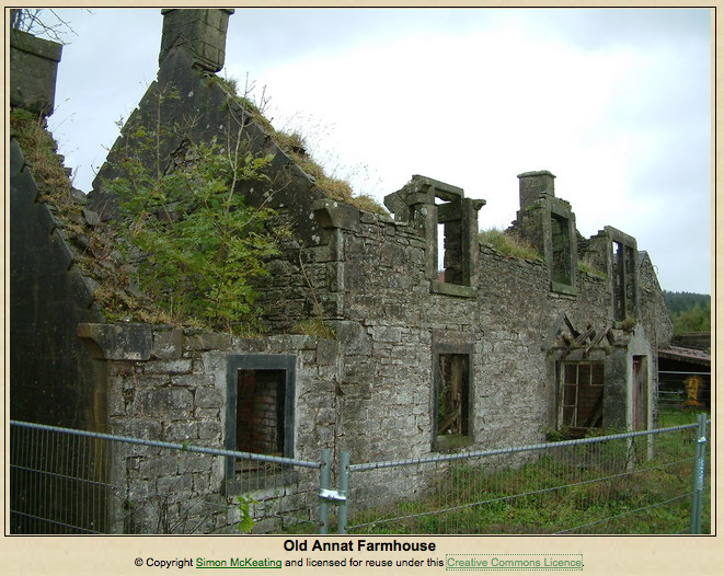 Old Annat farmhouse, near the village of Doune, in Scotlad.